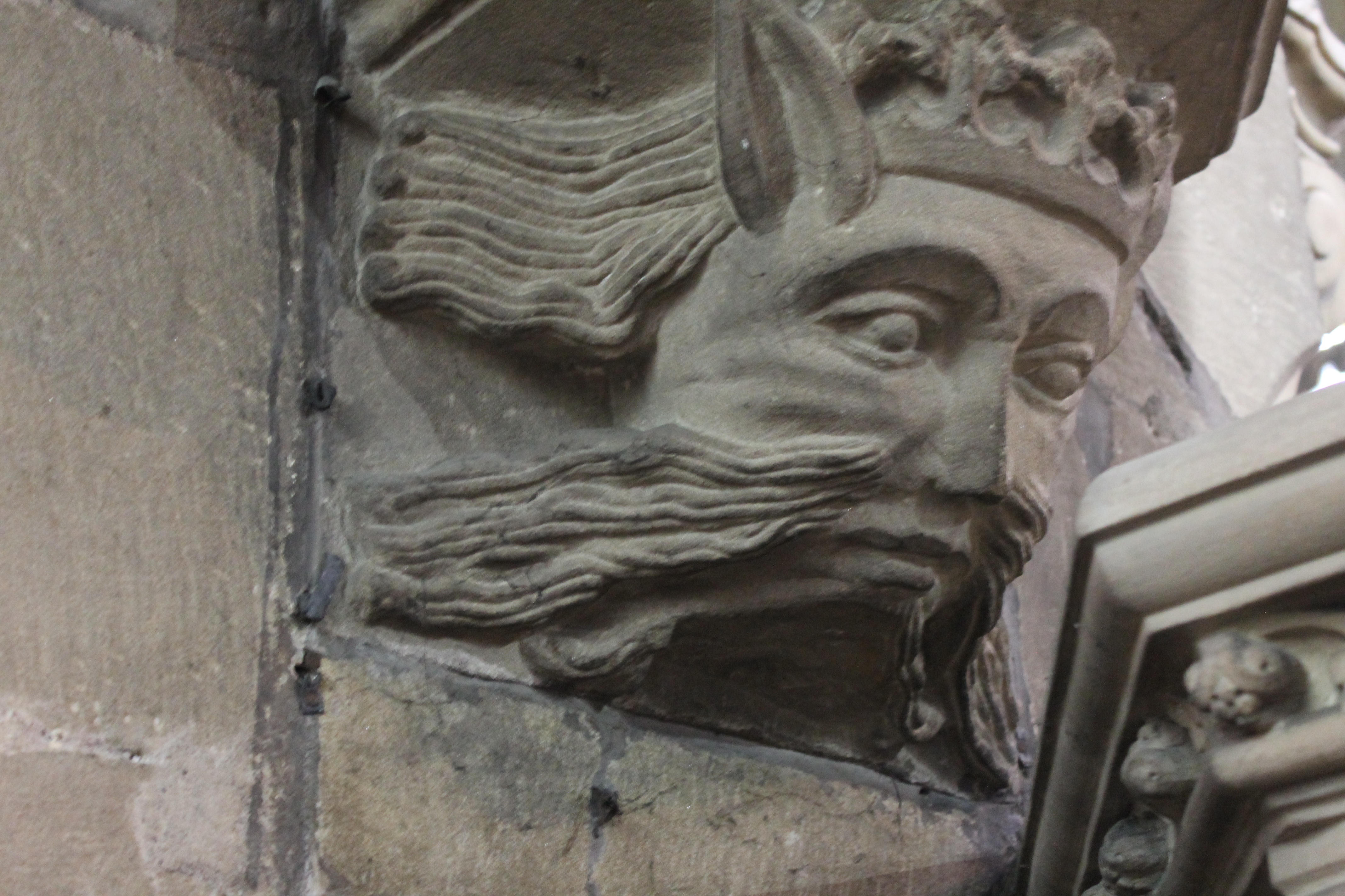 Possibly Thomas Stanley, 1st Earl of Derby who married Lady Margaret Beaufort, Henry Tudor's mother. St Giles Church, Wrexham, Wales.